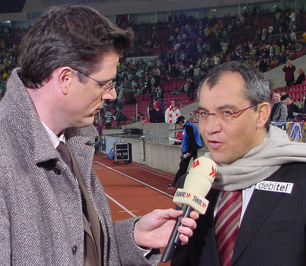 German sports journalist Michael Antwerpes (left) interviewing football manager Felix Magath